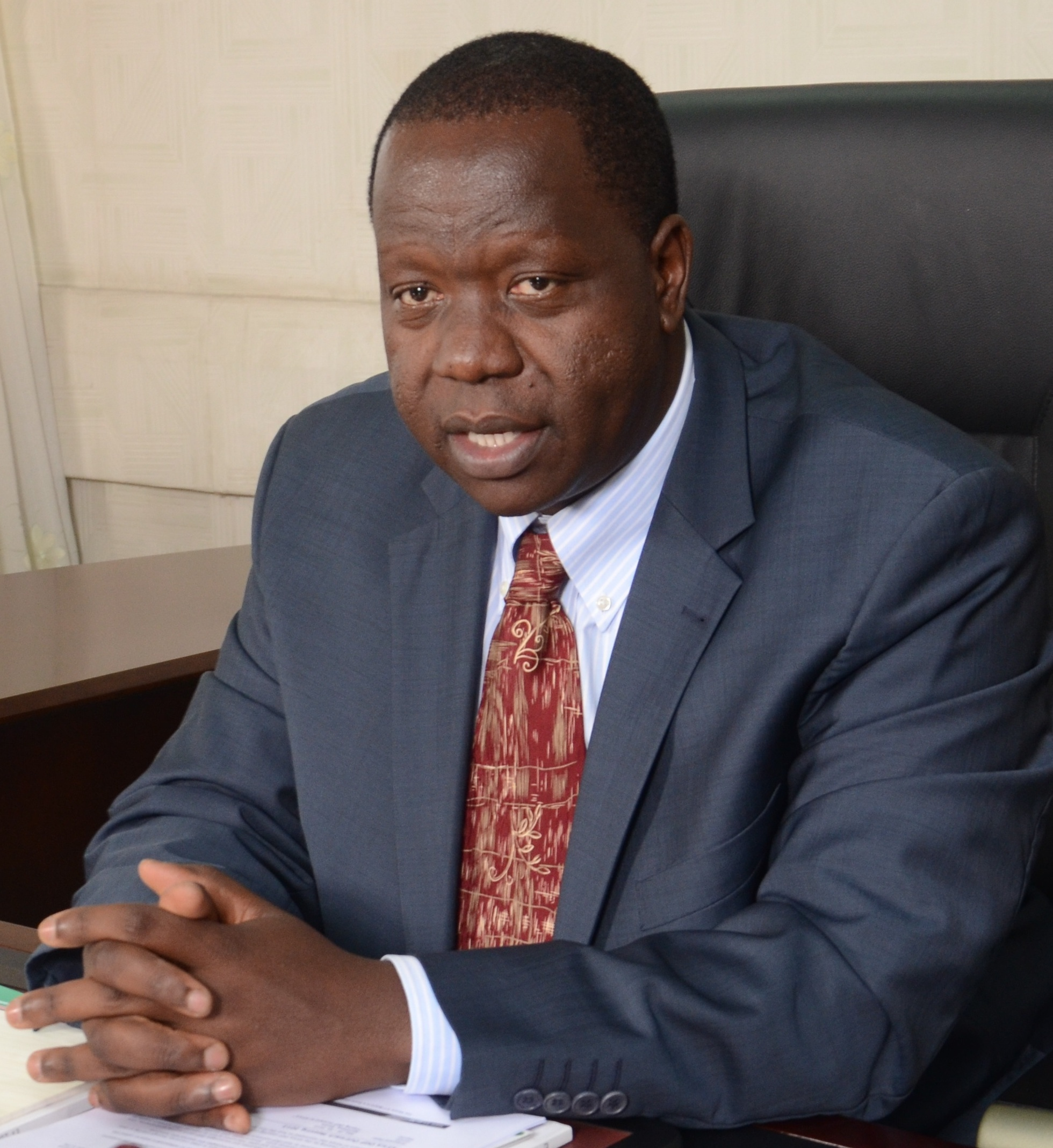 Fred Matiangi